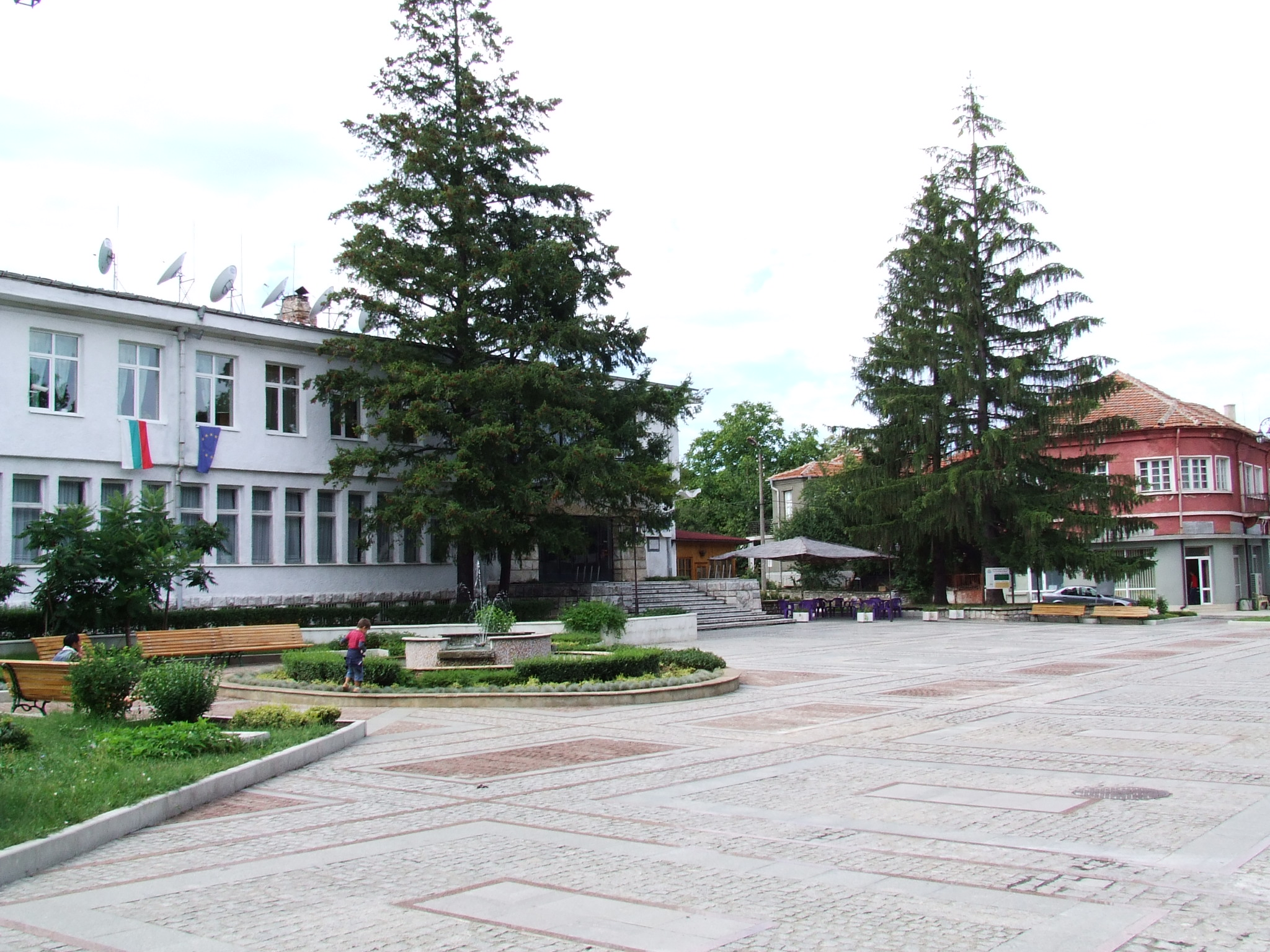 Central square of the Bulgarian town Malko Tarnovo